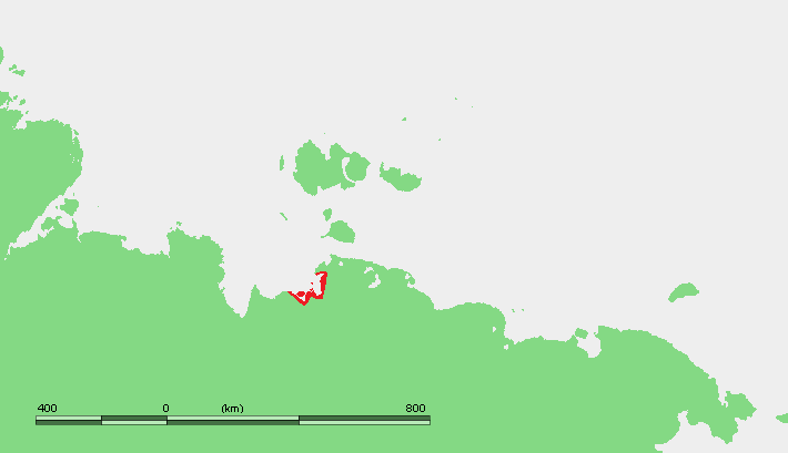 color map